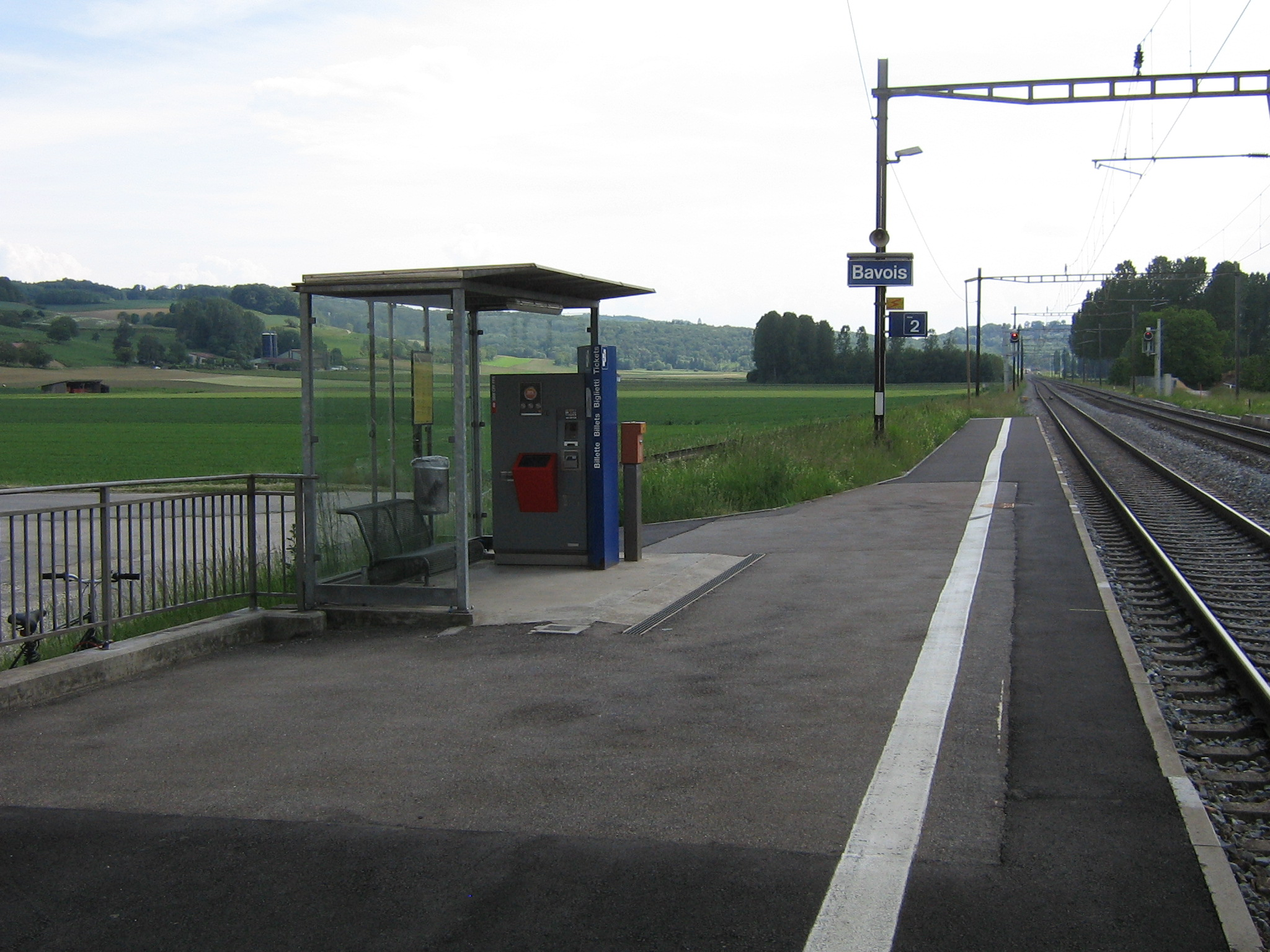 Bavois railway station, track 2.